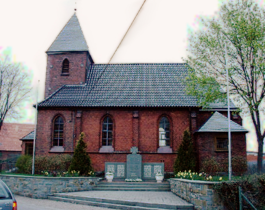 Kapelle Böckum